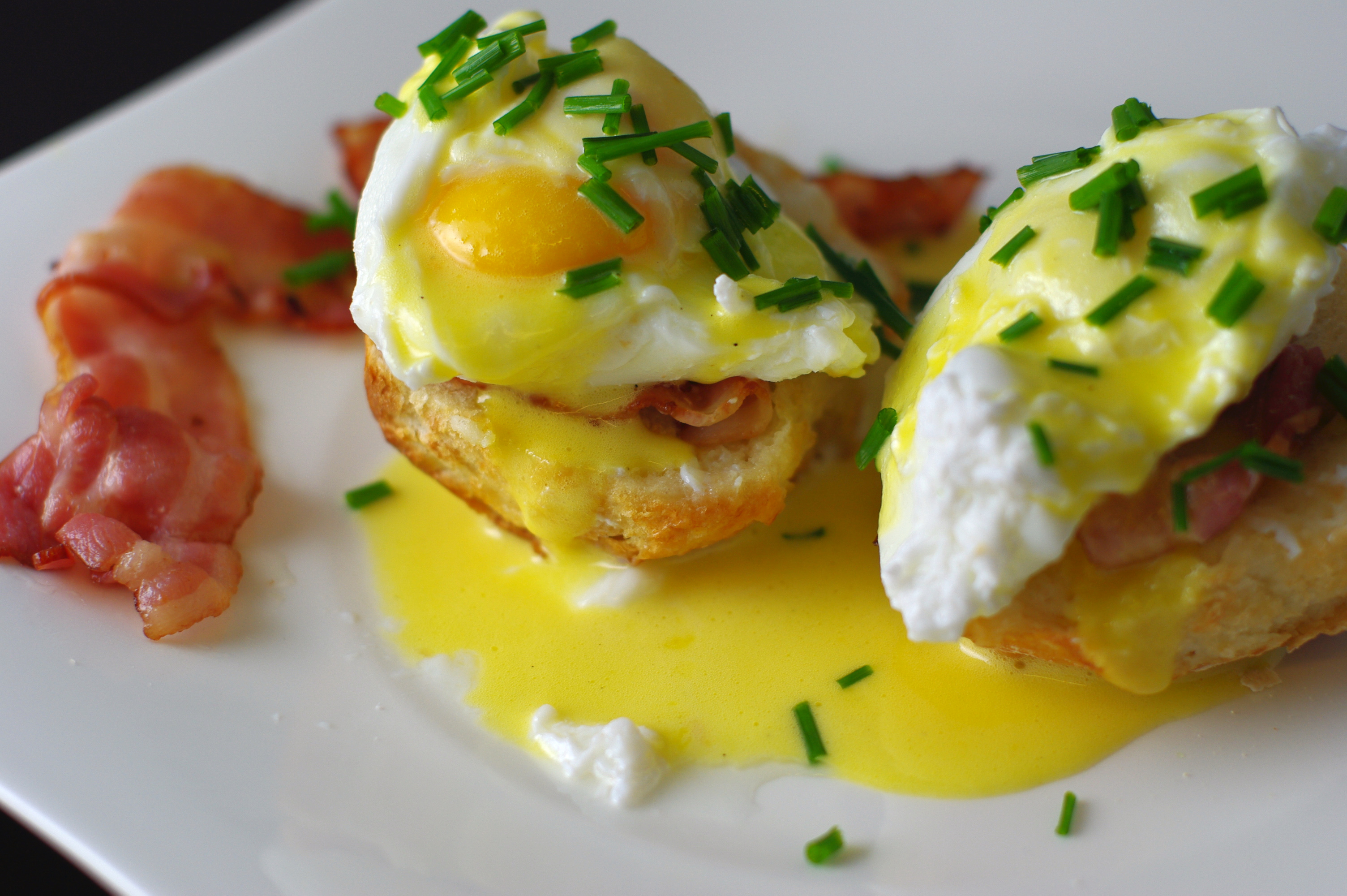 Eggs benedict with a slice of bacon aside.